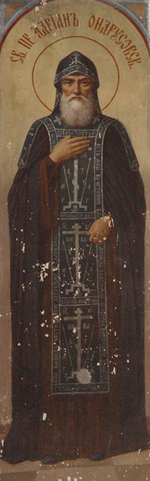 Saint Adrian of Ondrusov (Святой Адриан Ондрусовский), Russian Orthodox Christian wonderworker and martyr (murdered by peasants in 1550)